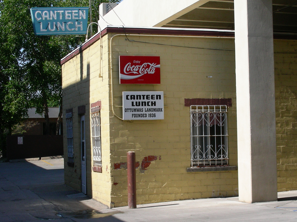 View of Canteen Lunch in the Alley in Ottumwa Iowa I took on September 2, 2006. The Canteen is an Ottumwa institution, founded in 1936. This picture is also available on Flickr